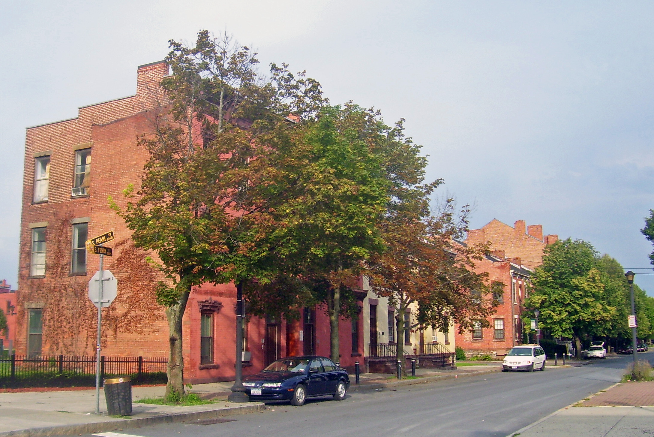 Houses on South Ferry Street (NY 32), Albany, NY, USA, part of the Pastures Historic District)